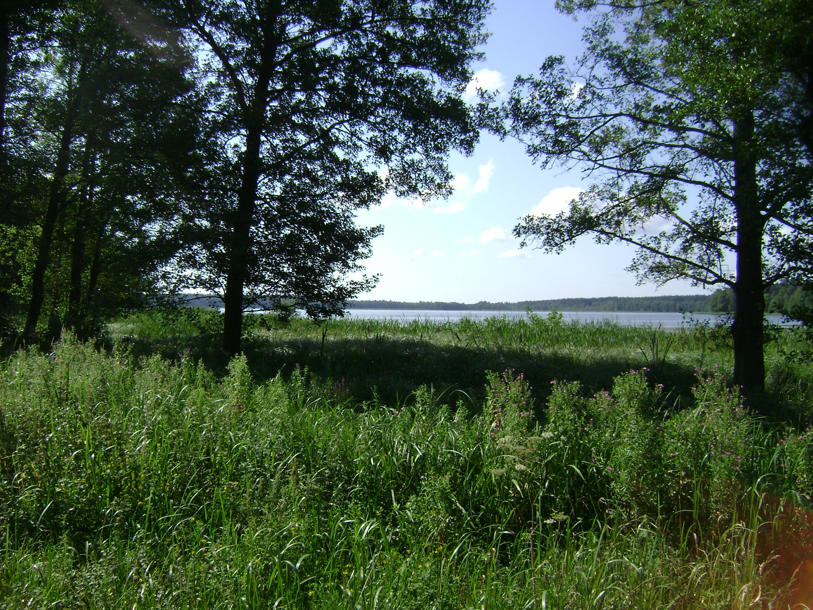 Poland. Gmina Szczytno. Sędańsk. Sędańskie Lake